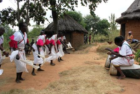 Traditional dancing in Kitui County, Kenya